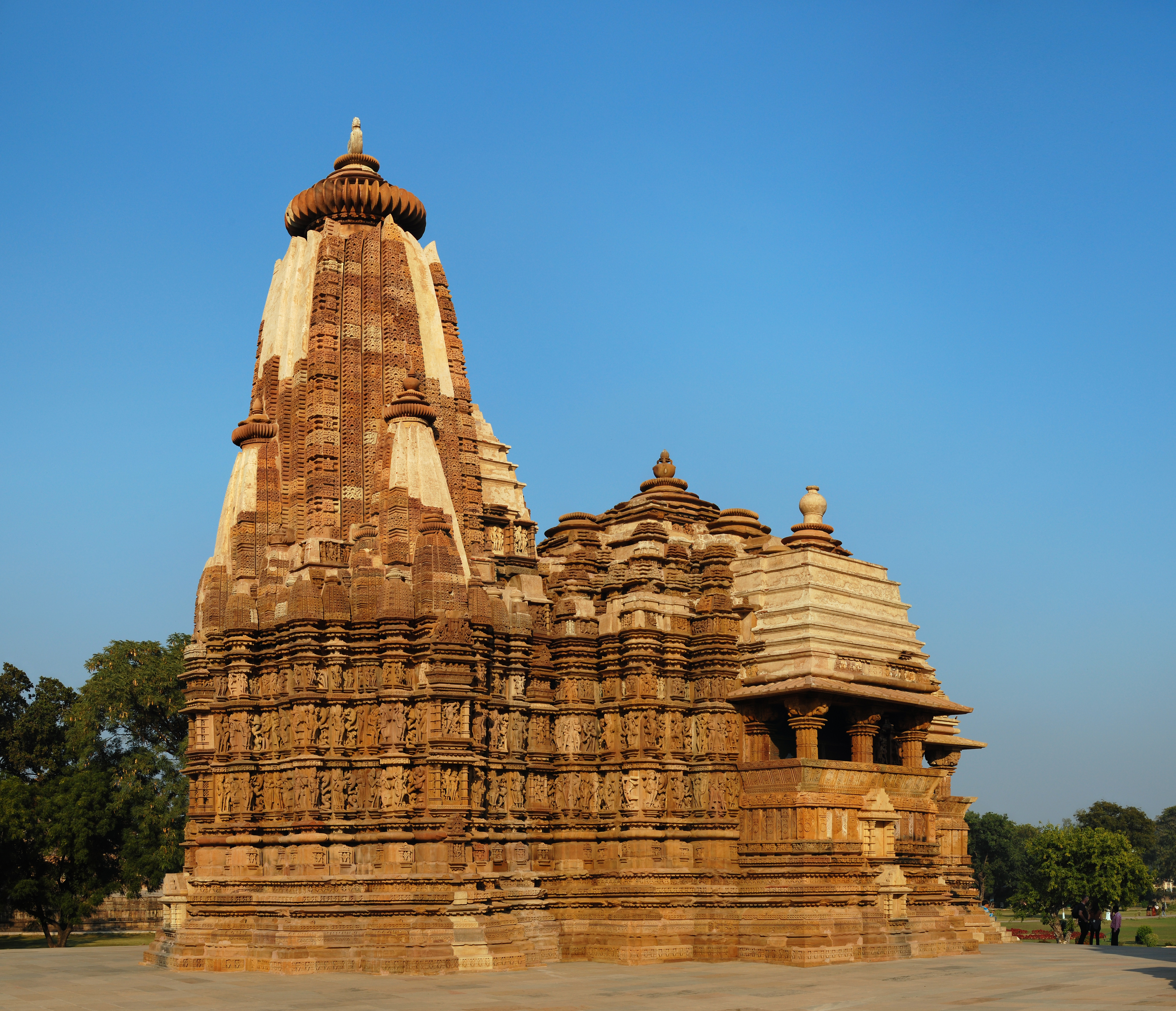 Devi Jagadambi Temple in Westen Group of Temples, Khajuraho, India.